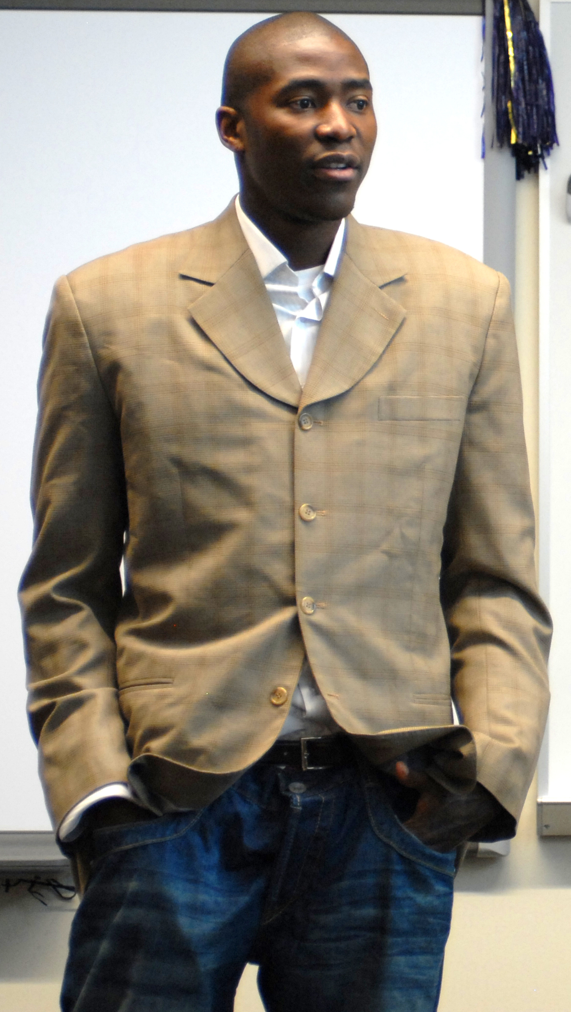 Jamal Crawford of the Atlanta Hawks speaks at the Be Here Get There launch. photo by jen nance/office of the mayor